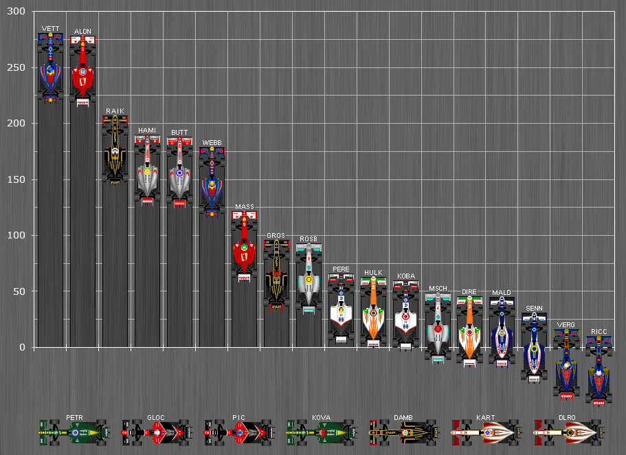 chart of final standings of 2012 Formula One season